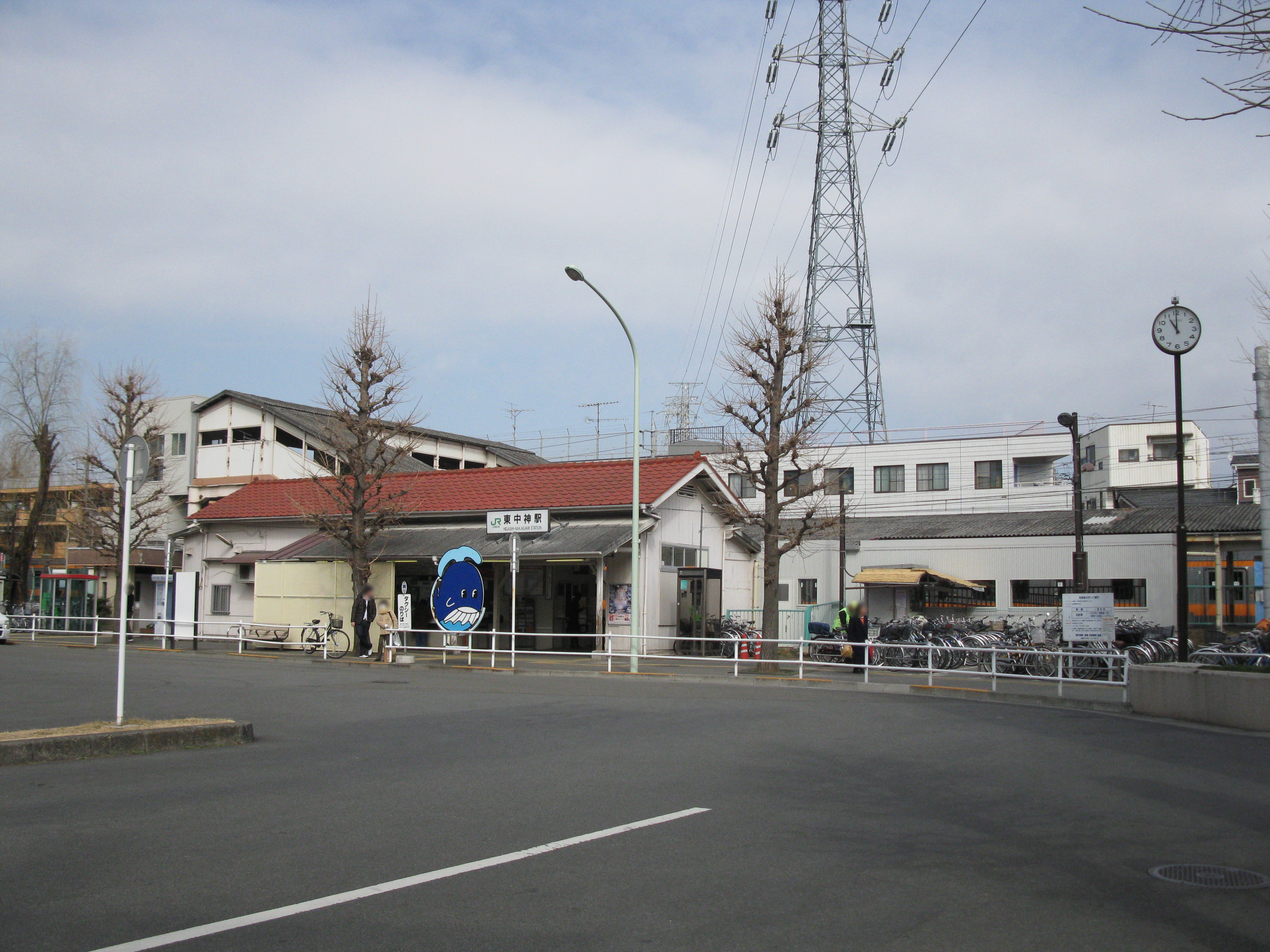 Higashi-Nakagami Station building (East Japan Railway Ōme Line)